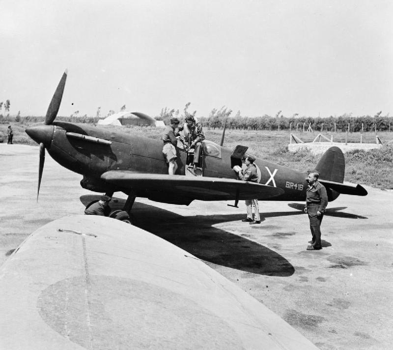 Royal Air Force in the Middle East, 1944-1945. A pilot, under training for tactical reconnaissance duties, leaves Supermarine Spitfire PR Mark IV, BR416 'X', of No. 74 Operational Training Unit at Petah Tikva, Palestine, after a training flight. A corporal can be seen removing, through a hatch on the port side, a magazine of exposed film from a Type F.24 camera postioned vertically behind the cockpit. BR416 was a veteran photographic-reconnaissance aircraft having served with both No. 1 Photographic Reconnaissance Unit in the United Kingdom, and also with No. 680 Squadron RAF in the Mediterranean theatre.